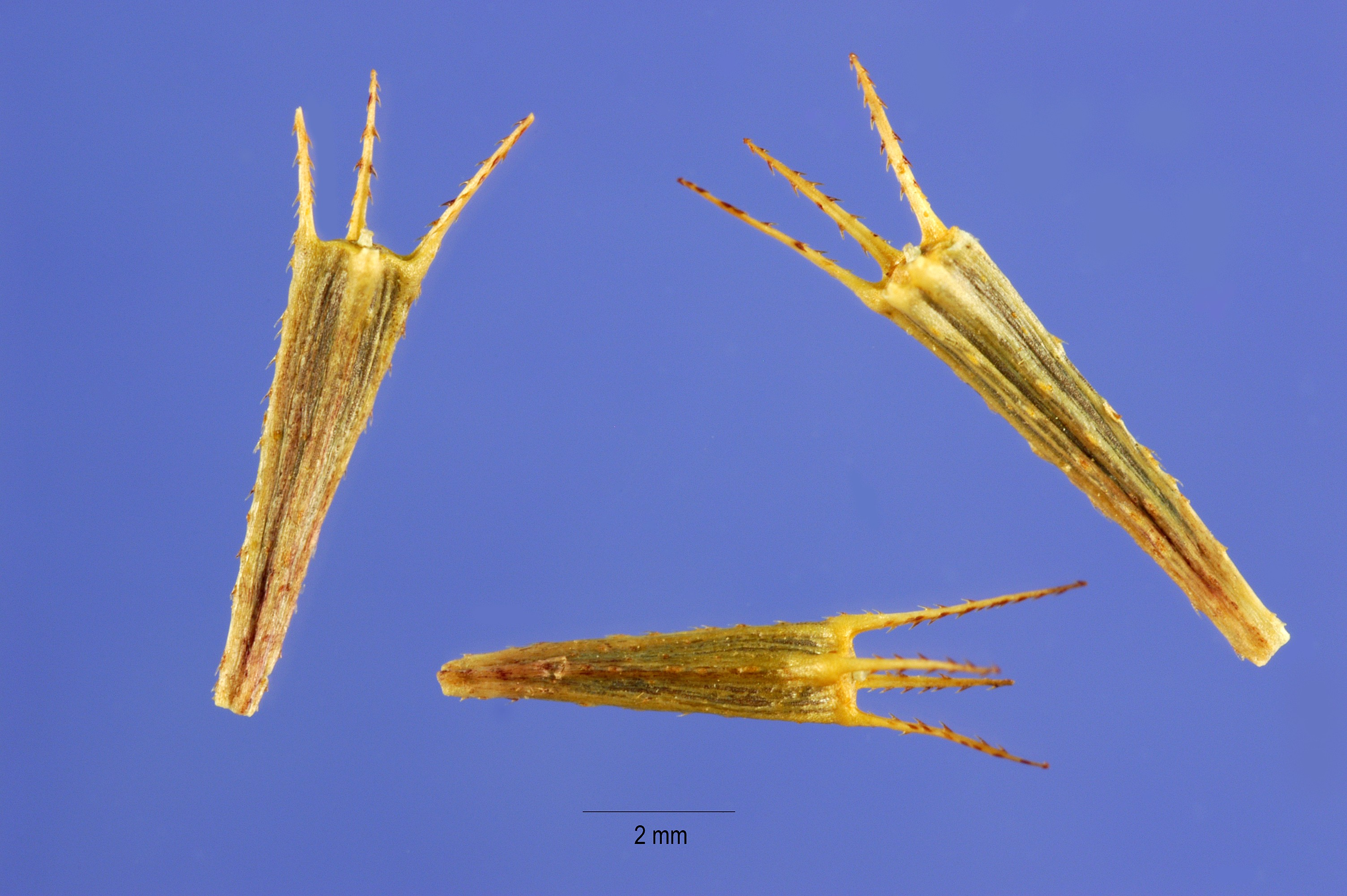 seeds of Bidens cernua from Steve Hurst, Provided by ARS Systematic Botany and Mycology Laboratory. United States, NV